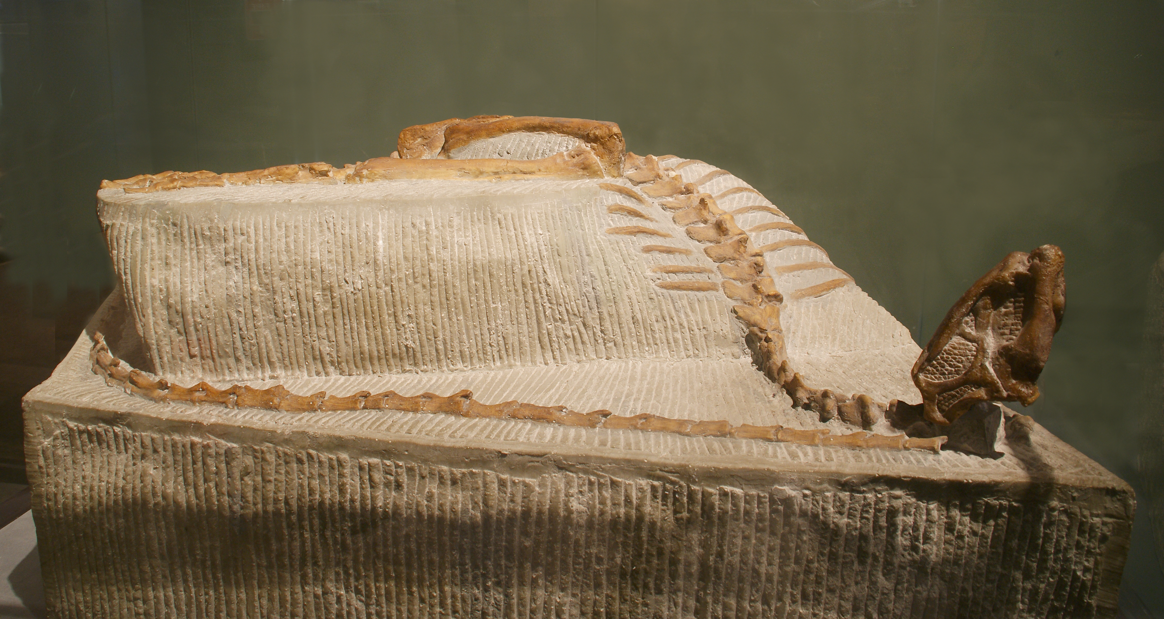 Agilisaurus fossil specimen excavated from the Dashanpu Formation in Sichuan province, China. Mid Jurassic period, 176 to 161 million years old. The fossil was on display as part of a touring exhibition "Dinosaurs Unearthed" shown at Bishop Museum, Honolulu, Hawaii